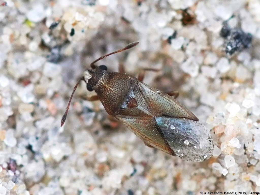 Cymus claviculus